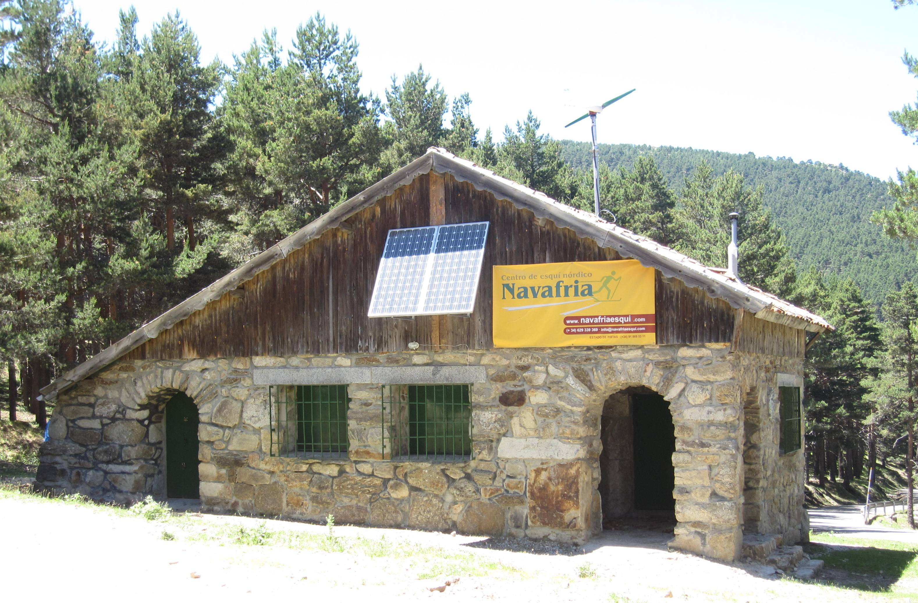 Refuge of the Navafría mountain pass (Guadarrama mountain range, central Spain).